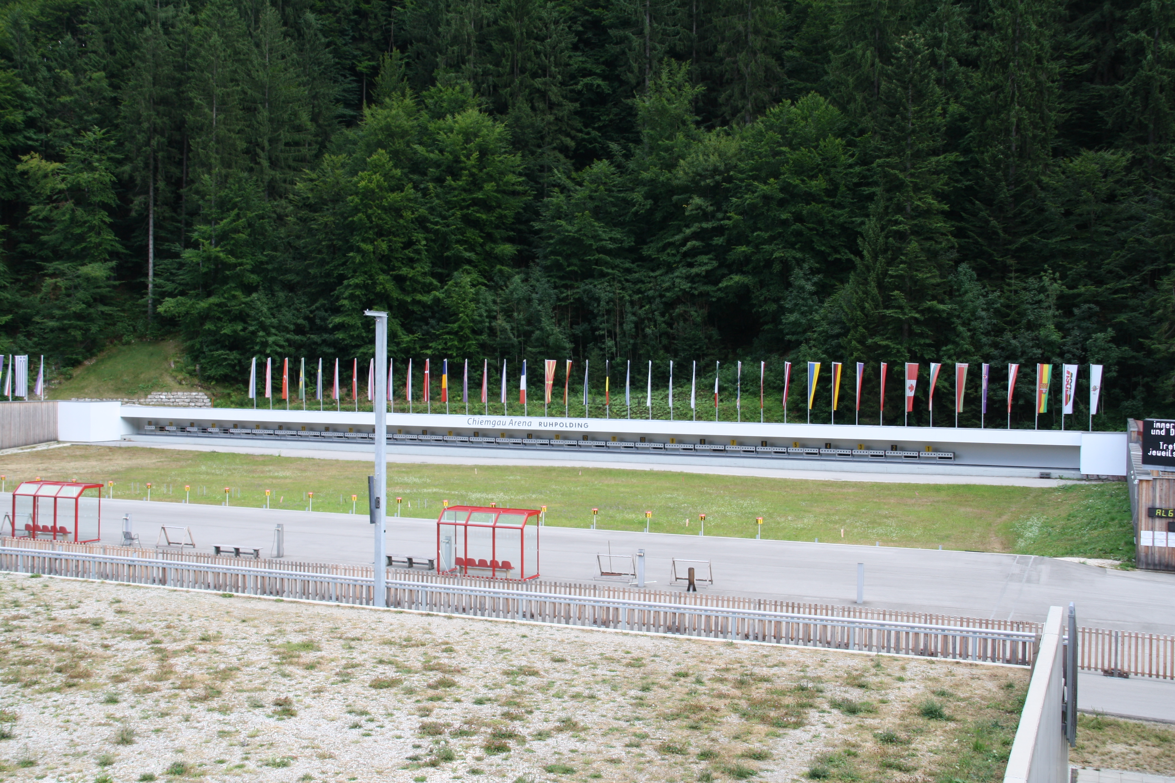 Biathlon shooting site at Chiemgau-Arena Ruhpolding